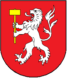 Shield of the municipality of Bovernier, Canton of Valais